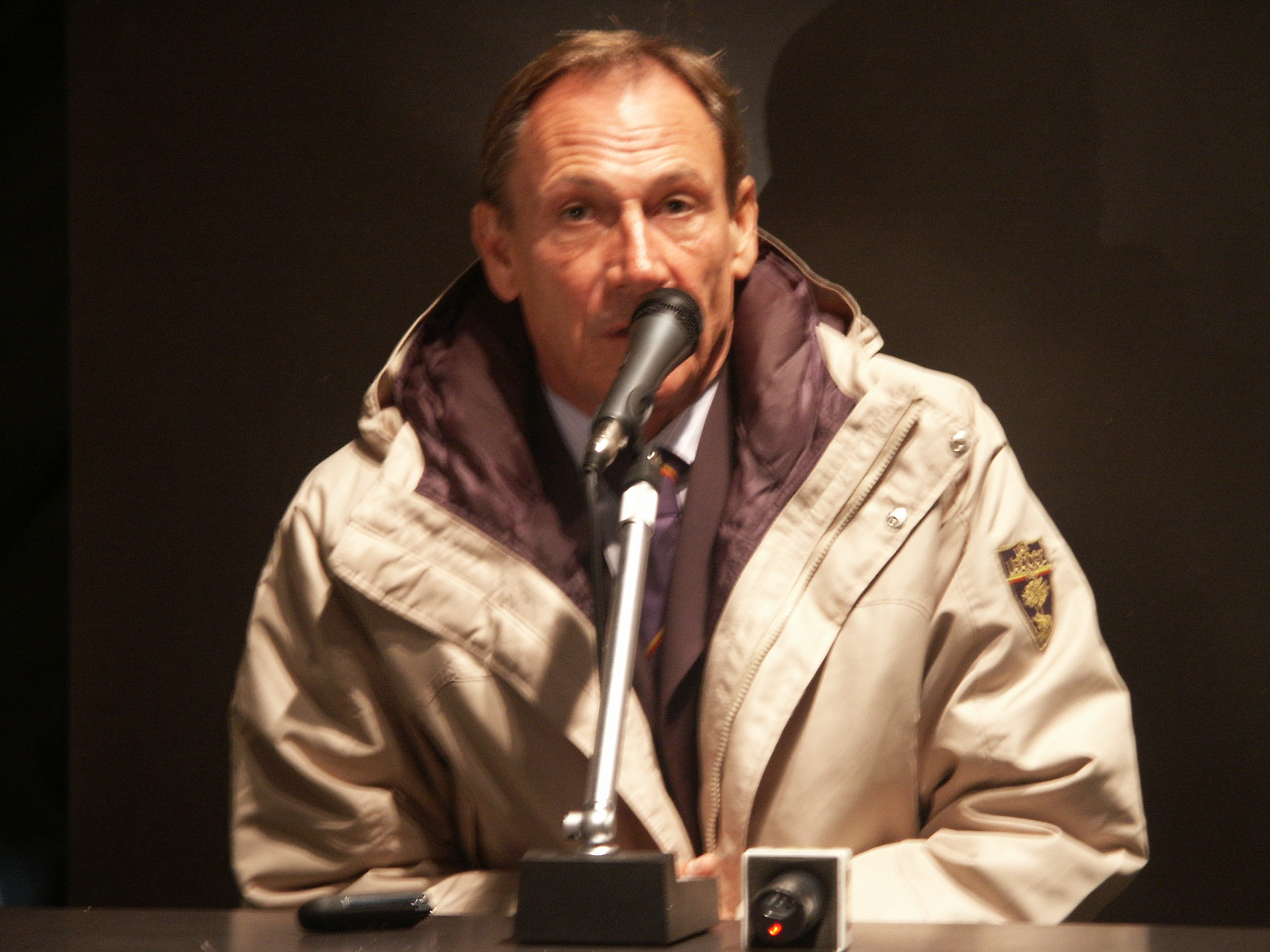 Czekoslovakian-born Italian association football coach Zdeněk Zeman during a conference